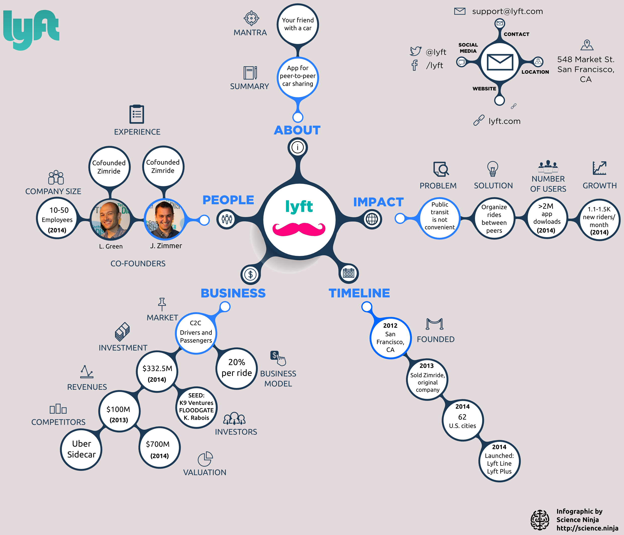 Lyft summary (2014)